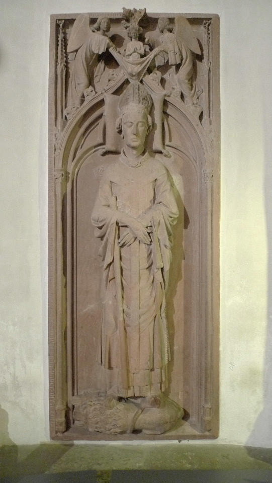 Bonner Münster - effigy of Archbischop Engelbert II. von Falkenburg